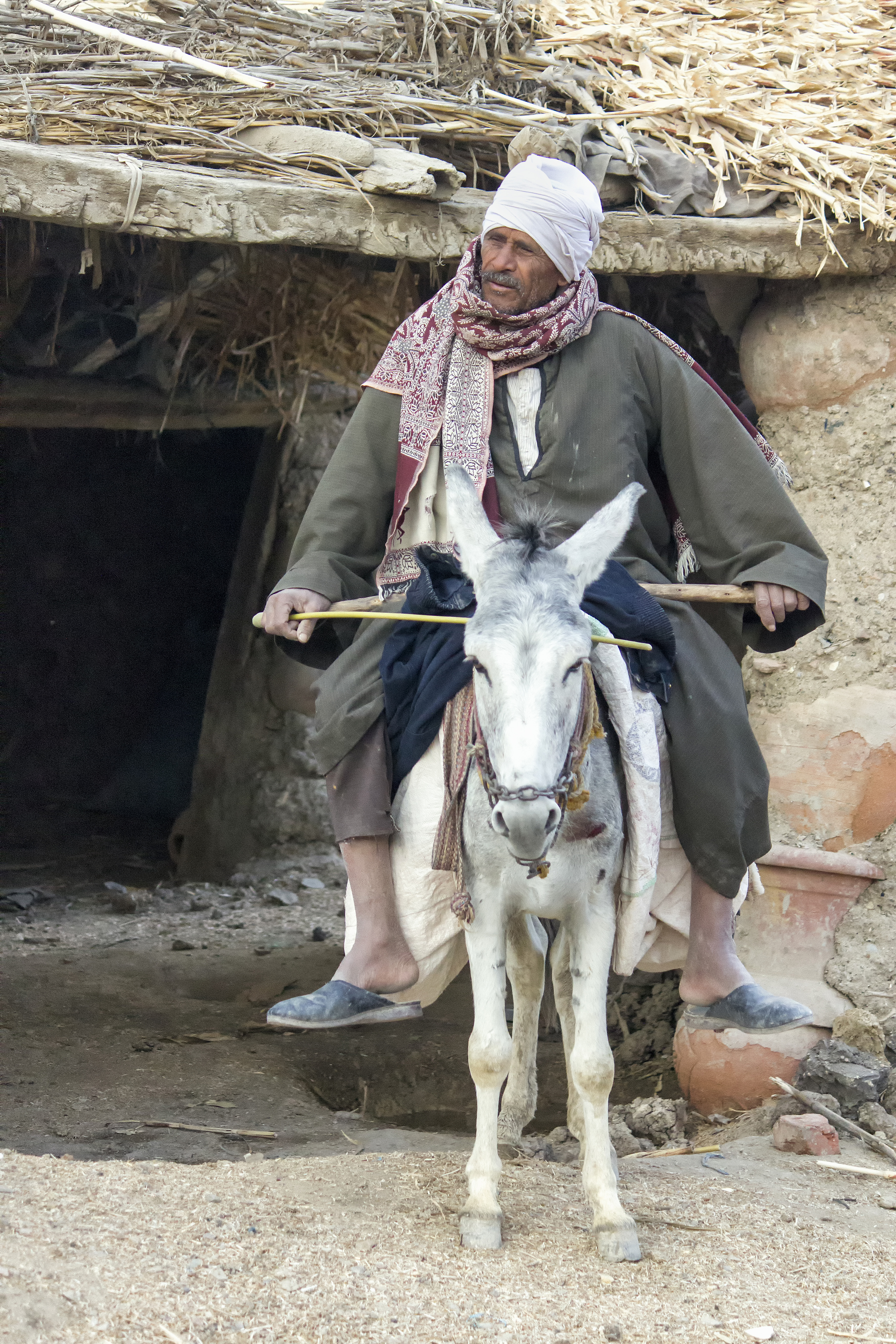 A man from the village of Nazla - Fayoum - Egypt This is an image with the theme "Africa on the Move or Transport" from: Egypt